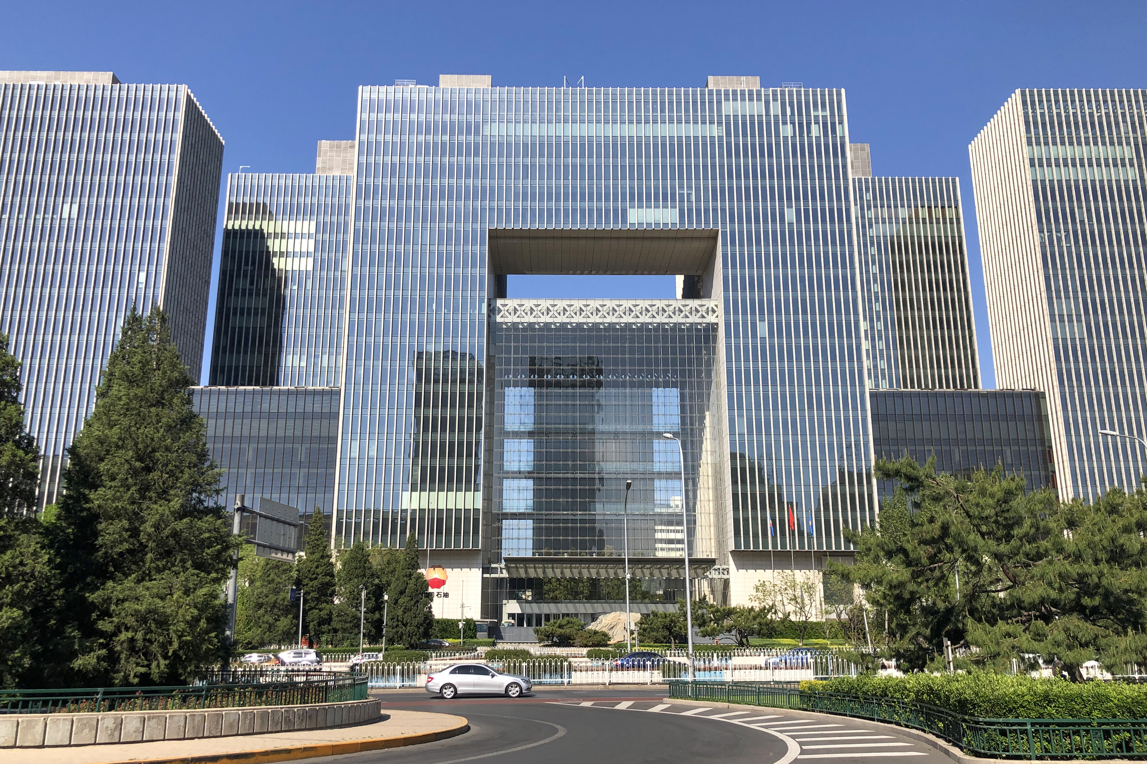 Can't get a full view here... trees!